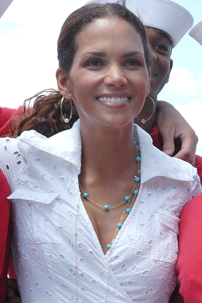 060524-N-1371G-258 New York Harbor (May 24, 2006) - On the flight deck aboard the amphibious assault ship USS Kearsarge (LHD 3), actress Halle Berry poses for pictures.